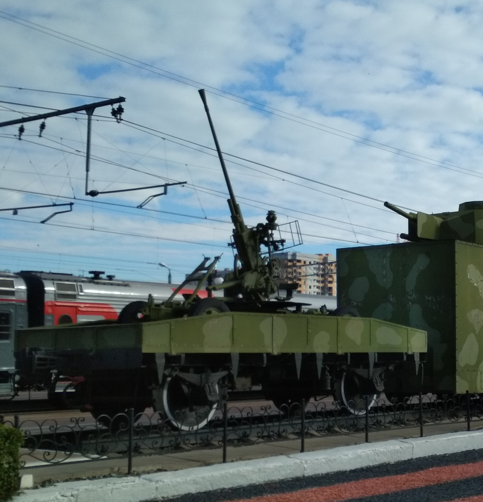 37-mm automatic anti-aircraft gun, model 1939 (61-K) on the platform of an armored train Tula worker at the station Tula-1-Kursk